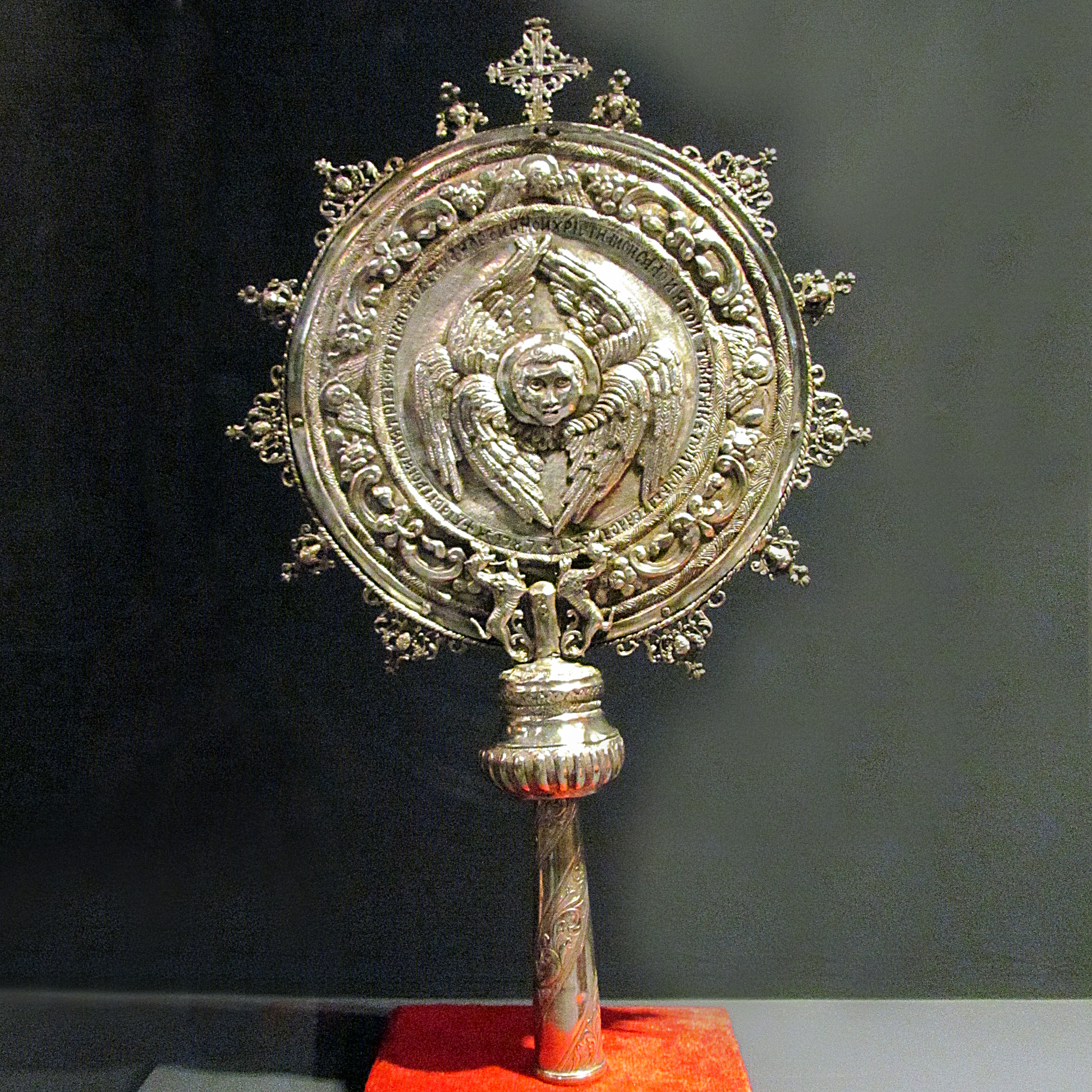 Ripida from 1787, National museum Belgrade, Serbia